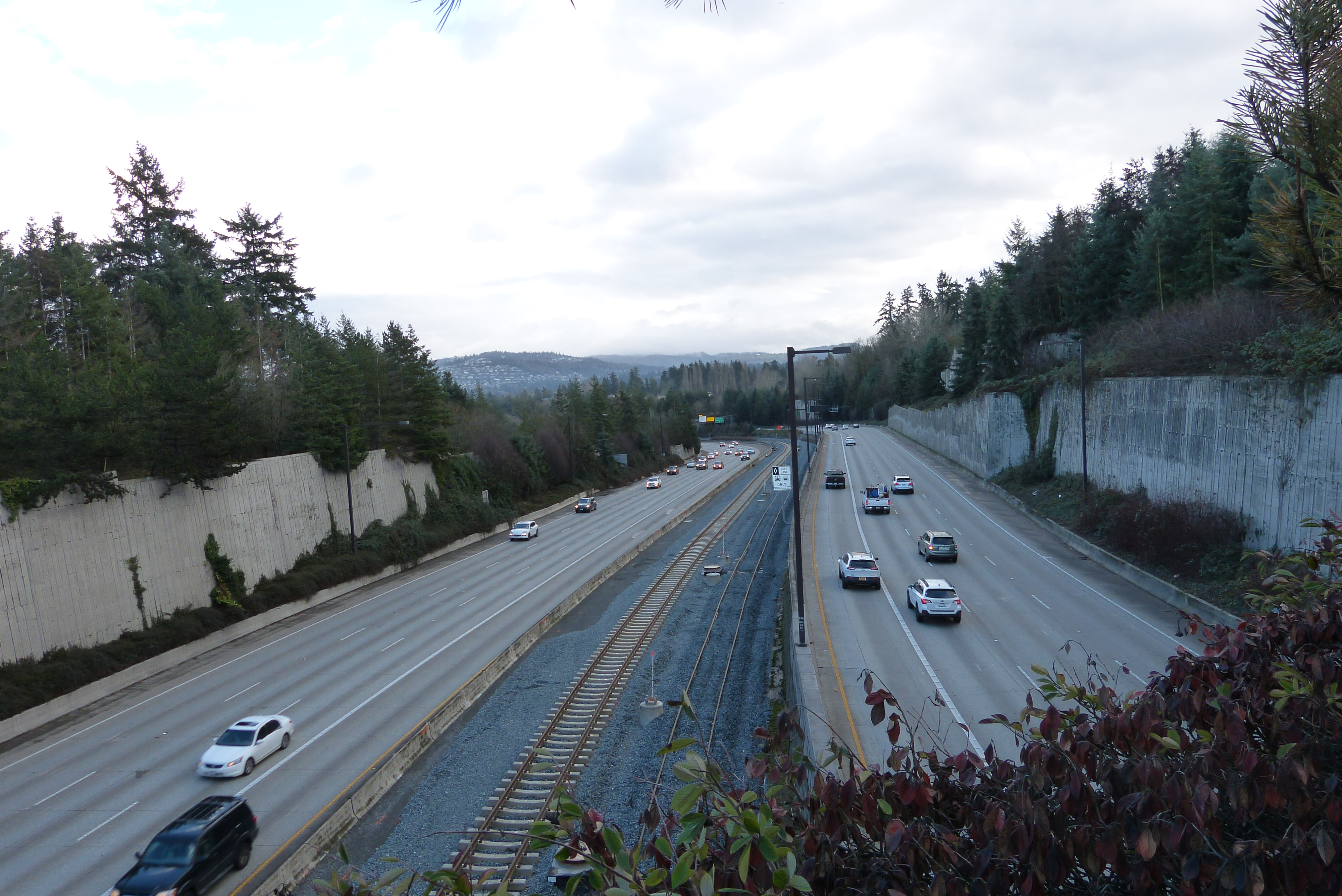 East Link rail on Mercer Island, under construction, December 2018. Shot from above Interstate 90 on the Shorewood Drive overpass. Somerset Hil in Bellevue is in the background.